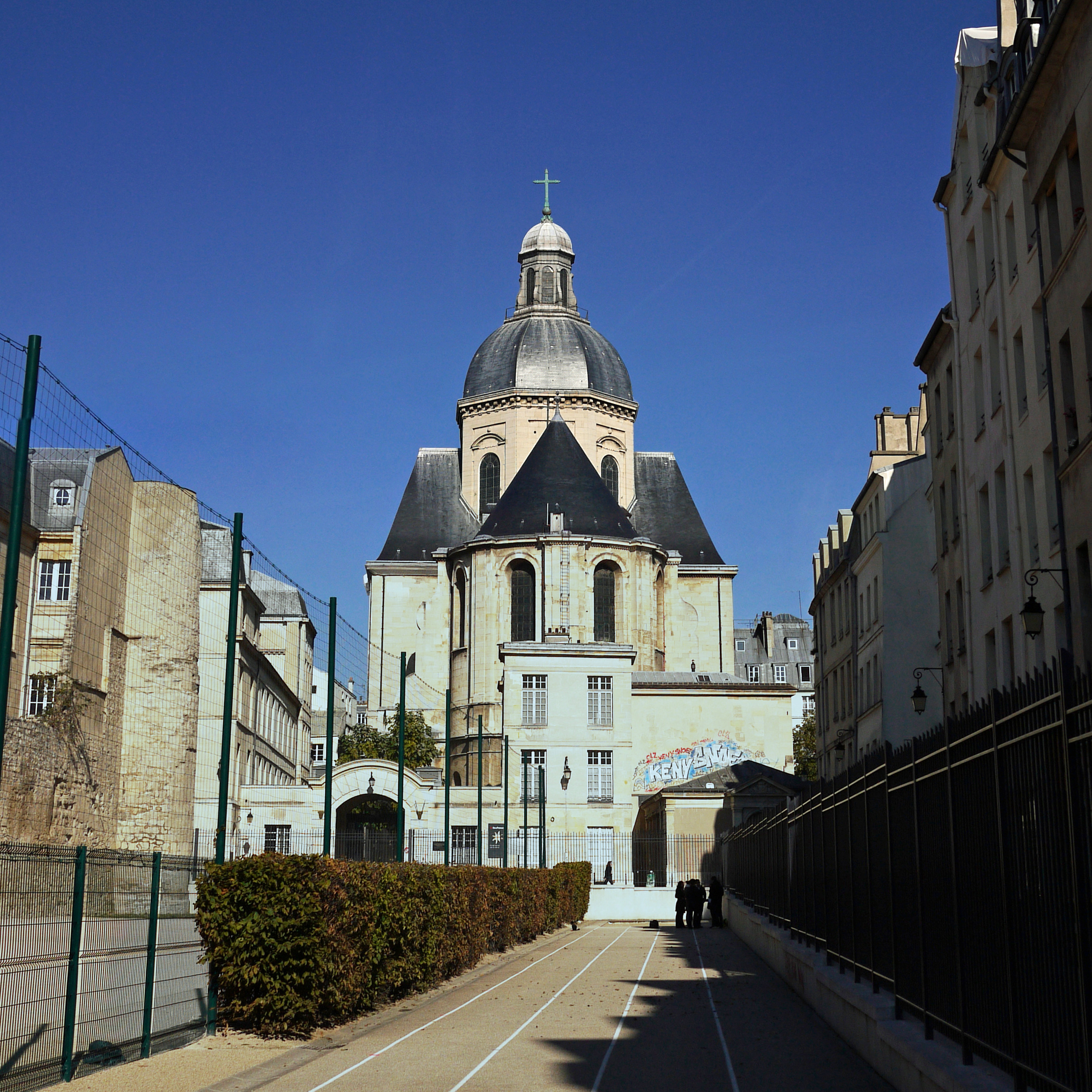 Église Saint-Paul-Saint-Louis, Paris IVe arrondissement, France. View from the race track on rue des Jardins-Saint-Paul.